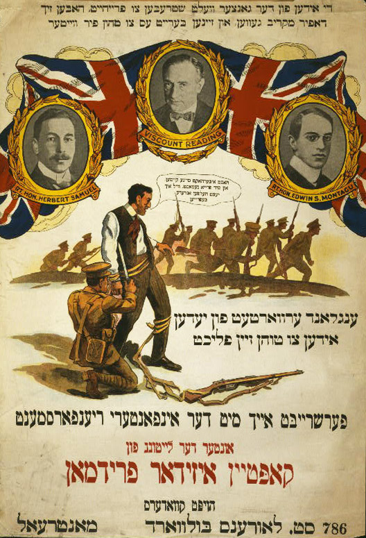 First World War enlistment poster from Canada. Yiddish-language poster shows a soldier cutting the bonds from a Jewish man, who strains to join a group of soldiers running in the distance and says, "You have cut my bonds and set me free - now let me help you set others free!" Above are portraits of Rt. Hon. Herbert Samuel, Viscount Reading, and Rt. Hon. Edwin S. Montagu, all Jewish members of the British parliament. Text continues: Enlist with the infantry reinforcement for overseas under the command of Captain [Isidor] Freedman, Headquarters, 786 St. Lawrence Boulevard, Montreal. ייִדיש: "האבט איבערהאקט מיינע קייטען און מיר פרייא געמאכט. וויל איך יעצט העלפען אנדערע געפרייען"